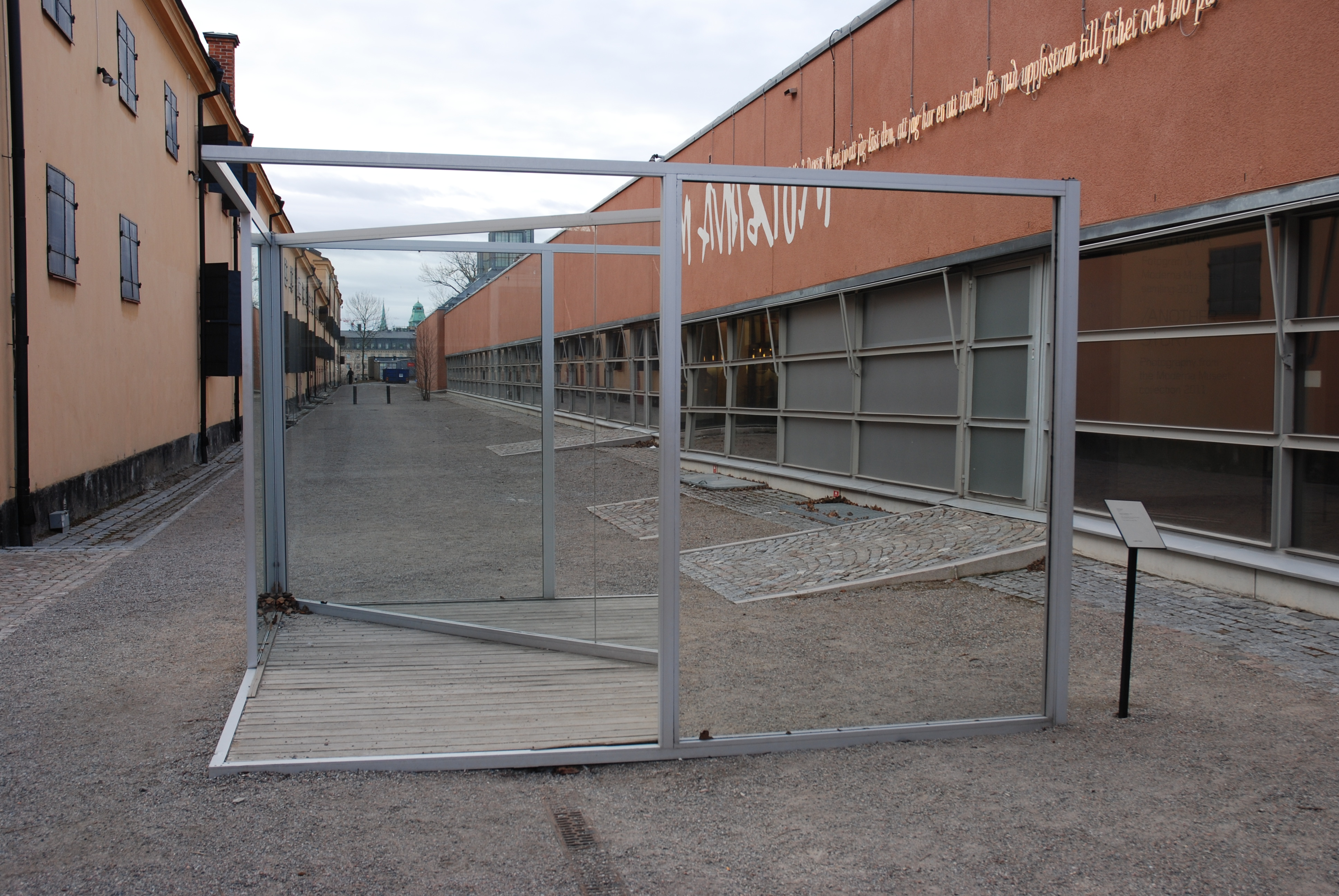 Dan Graham´s Pavilion Sculpture II, Skeppsholmen, Stockholm, Sweden